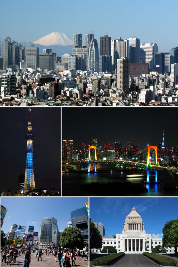 Photo montage of Tokyo, Japan